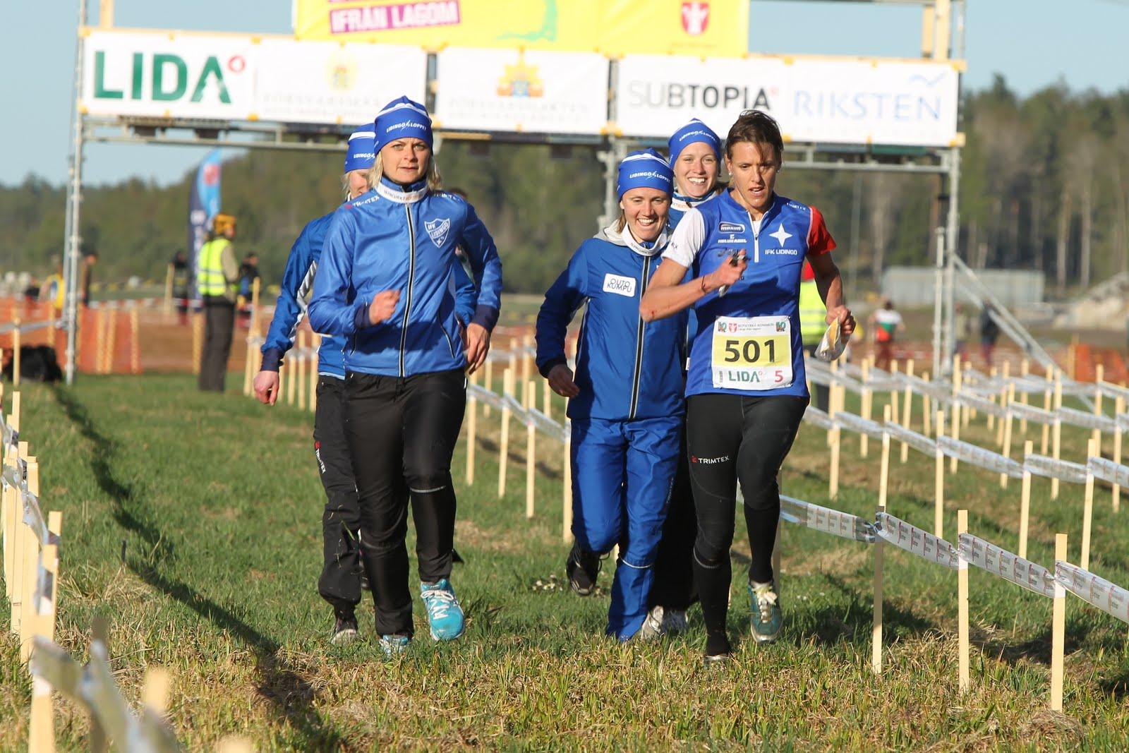 Tiomila 2011. IFK_Lidingös_Skid (second place)